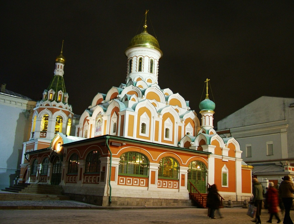 Kazanskiy sobor